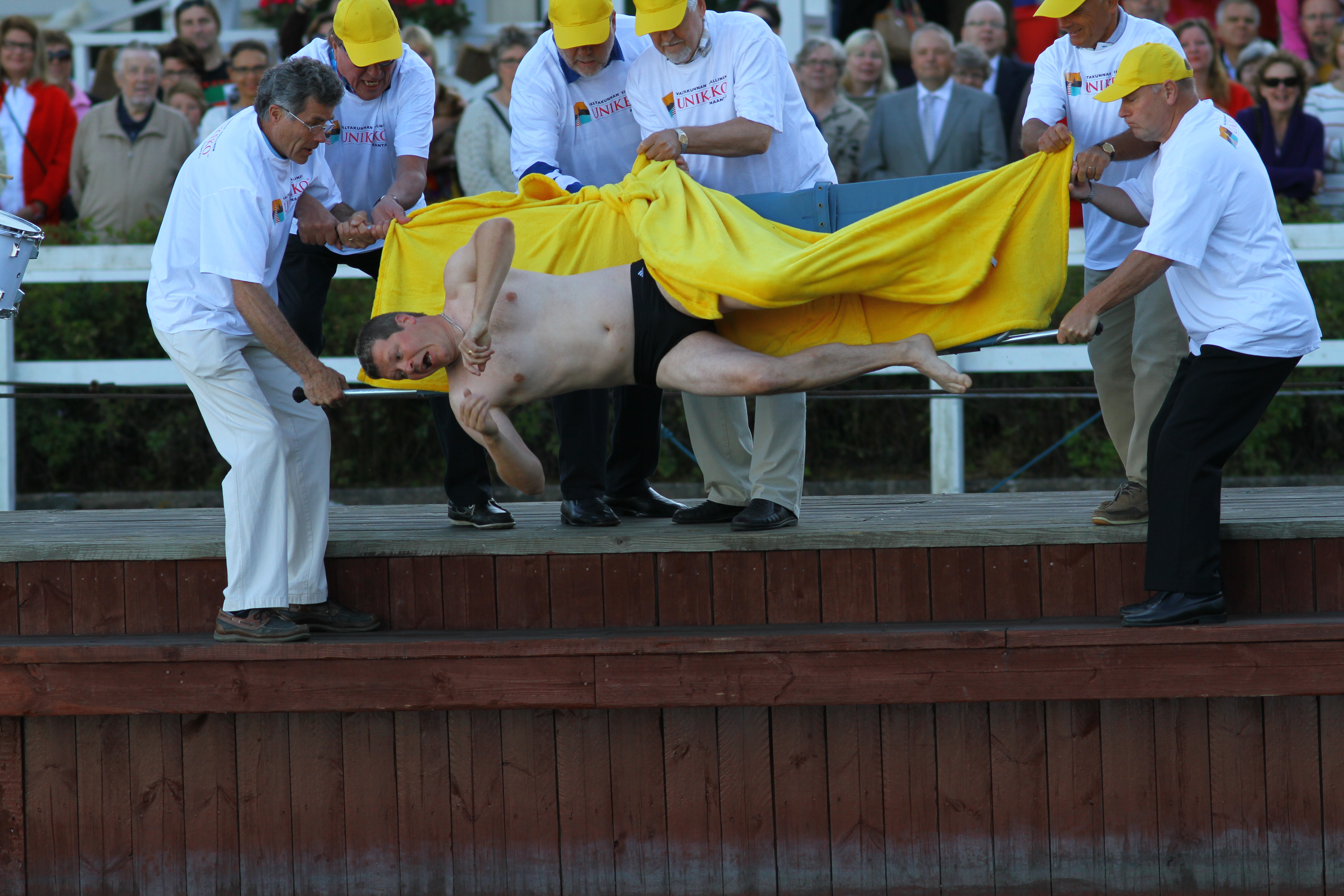 National Sleepy Head Day (Finnish: Unikeonpäivä) in the city of Naantali, Finland.